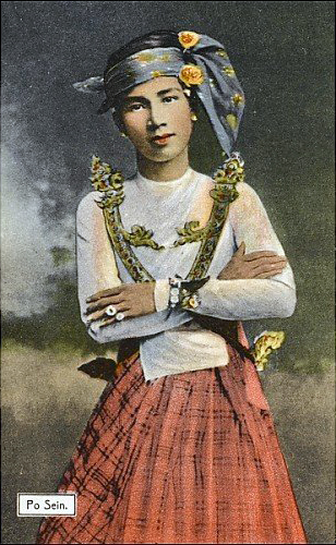 Po Sein